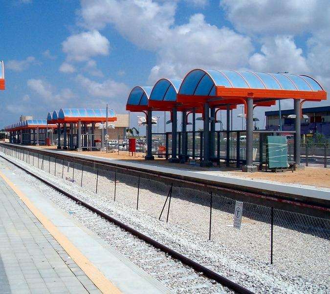 Ashqelon Railway Station